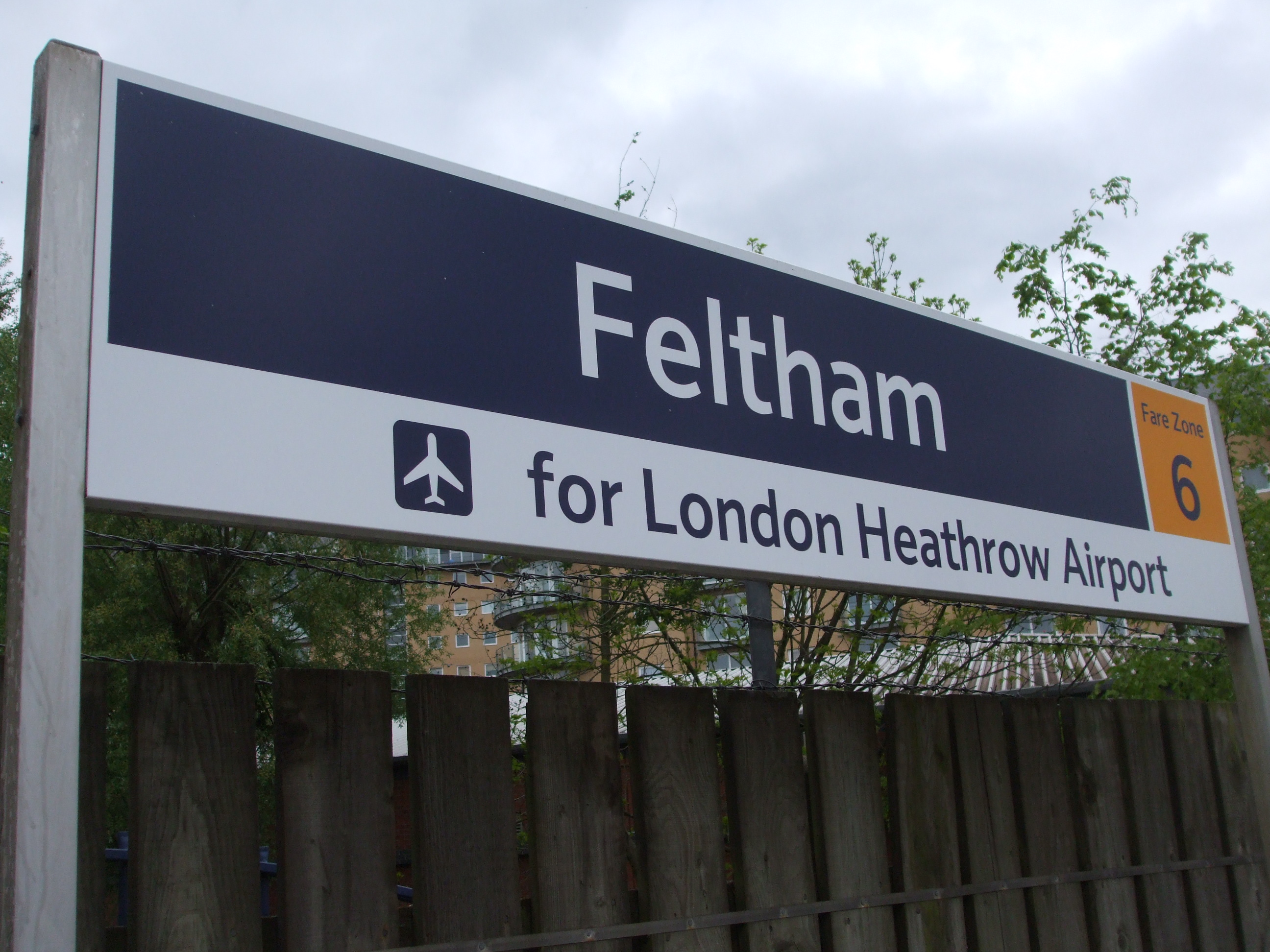 Feltham station signage, in new SWT colours, as well as advertising for bus services to Heathrow Airport. (Photo May 2010).